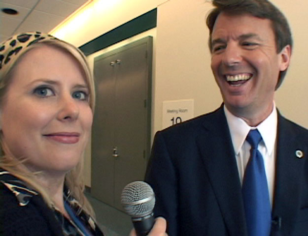 Citizen Kate chats with John Edwards